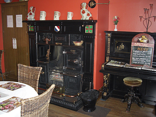 A cosy glow. A warm fire in the cast iron range greets January customers of the Victorian Tearooms on Deardengate. An external shot of the tearoom can be seen here 732041